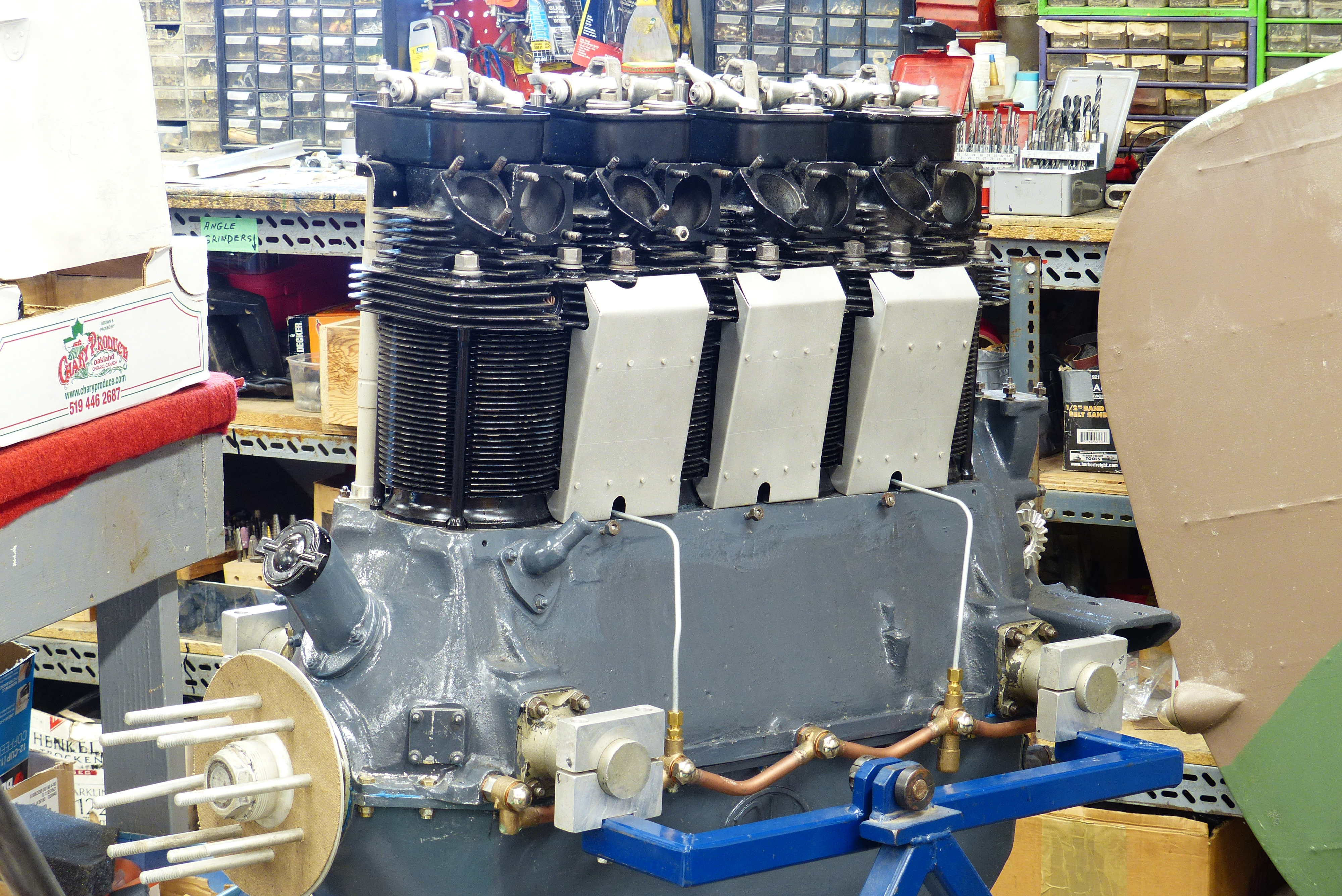 Gypsy Major 1C under restoration at the Tiger Boys Aircraft Works in July 2015. Port side. The yellow aircraft in the background is a de Havilland Gypsy Moth. Photo taken with permission of Mr. Tom Dietrich.